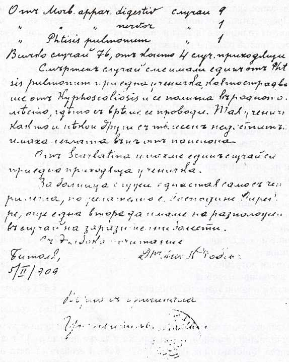 Report from Angel Robev to Exarch Joseph I from 5 February 1909